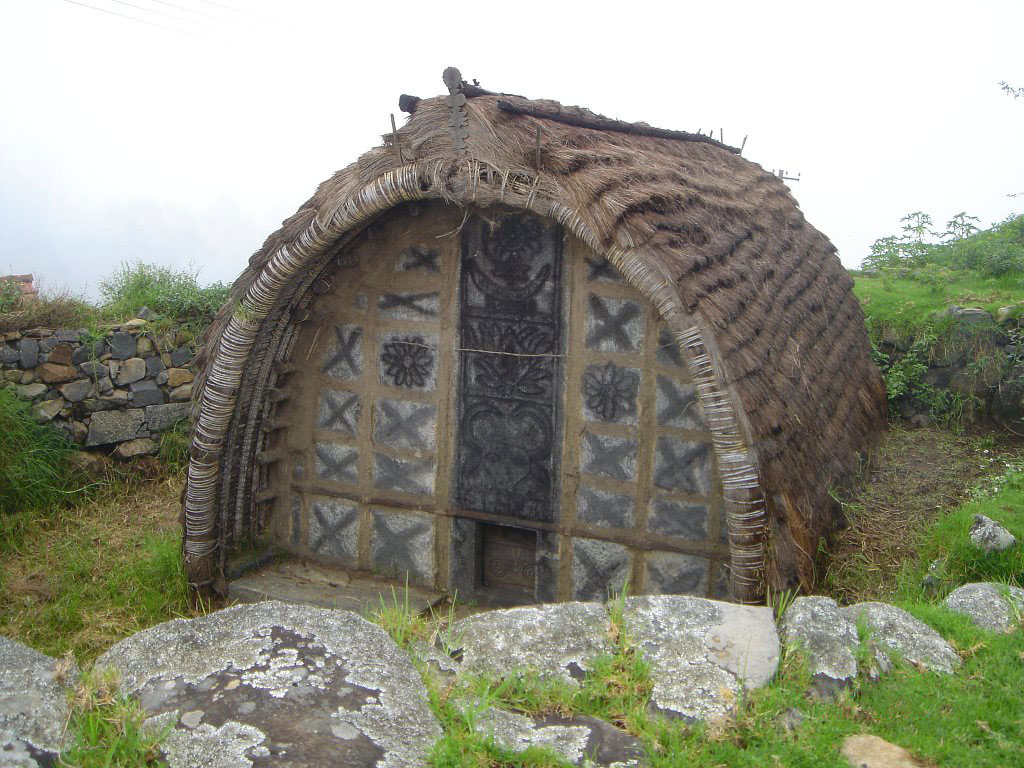 A Toda temple on Muthunadu Mund near Ooty, India. Shot using a personal digital camera by Ranjit Mathew (rmathew AT gmail DOT com) on 2005-11-04.